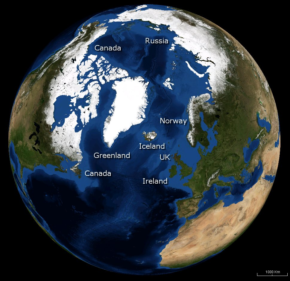 Image of the Earth with Iceland in the centre, with nearby countries labelled.